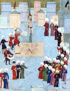 Skinning of Marcantonio Bragadino